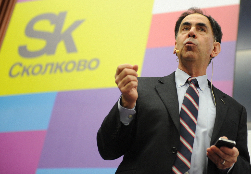 “Presentation by Skolkovo Institute of Science and Technology”. Edward Crawley, a professor at Massachusetts Institute of Technology at the presentation by the Skolkovo Institute of Science and Technology.